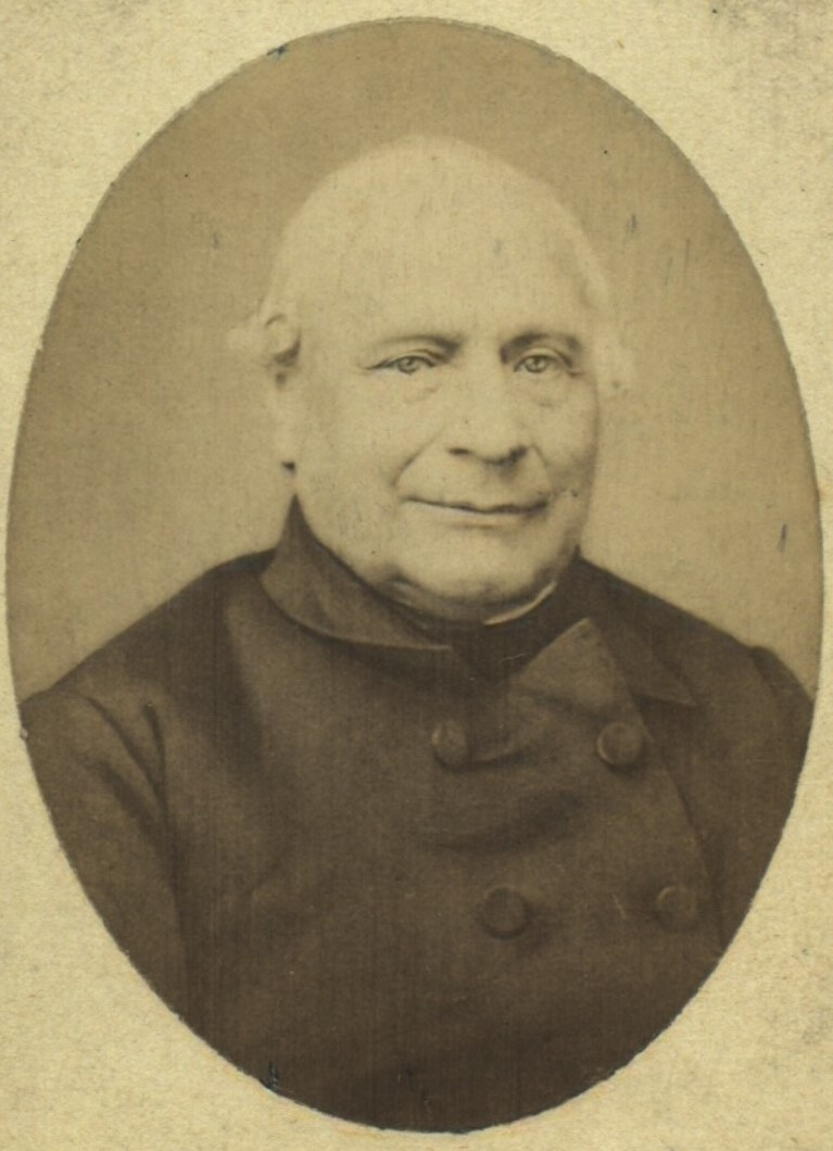 Iver Johan Unsgaard (1798-1872), Danish civil servant, politician, Interior Minister, MP